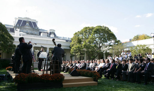 President George W. Bush and guests enjoy the entertainment of Cachao and his band during a Rose Garden celebration Wednesday, Oct. 10, 2007, of Hispanic Heritage Month.